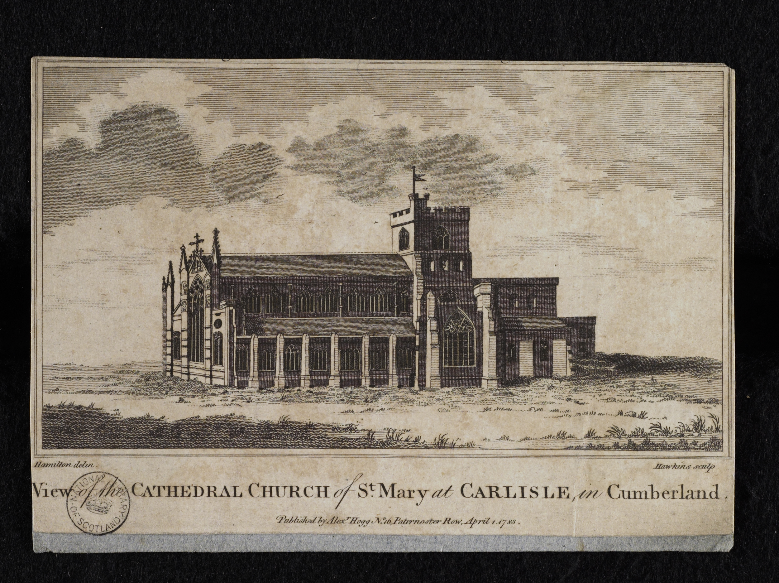 View of the Cathedral Church of St. Mary at Carlisle. April 1, 1783